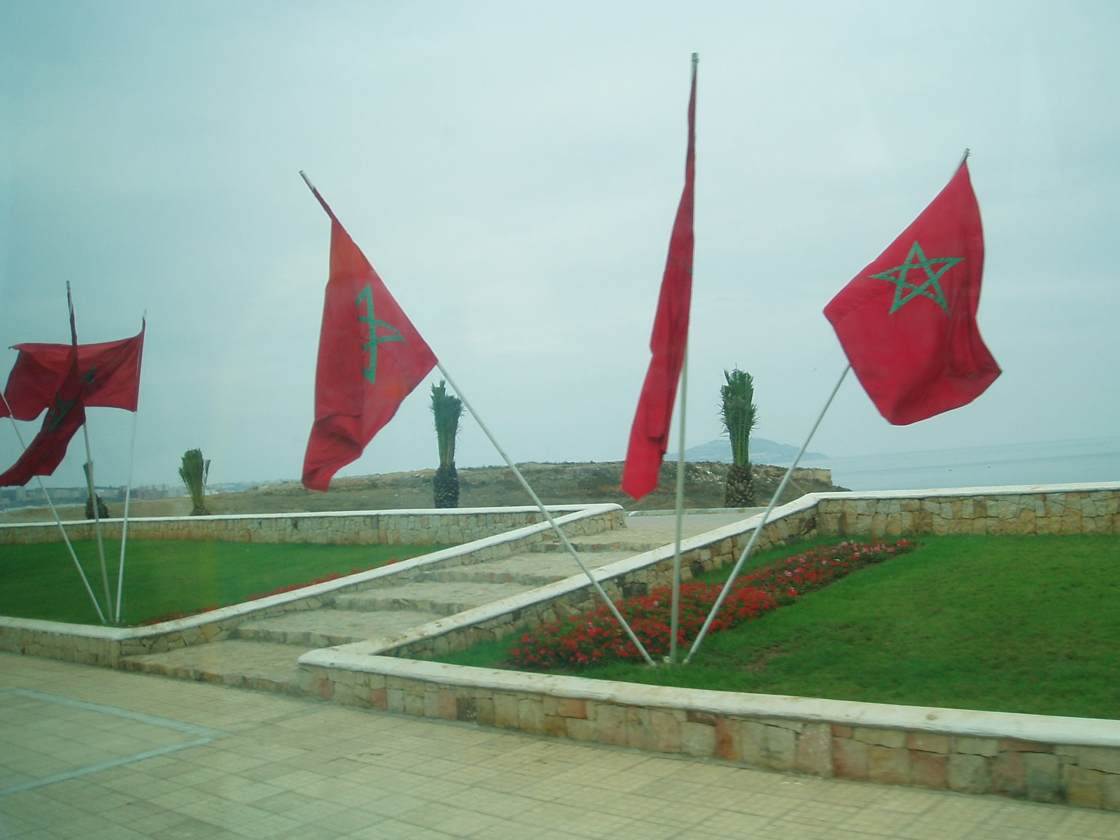 Flags of Morocco.